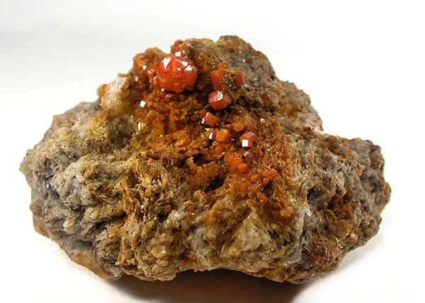 Mimetite, Mimetite (Var.: Campylite) Locality: Dry Gill Mine, Caldbeck Fells, North and Western Region (Cumberland), Cumbria, England, UK (Locality at ) Nestled down in a vug of massive quartz are ocher colored barrels of mimetite. The crystals have bright luster and are well formed with the largest crystal measuring nearly 1 cm in length. I would hazard a guess that this is among the brightest color and lsutre of the type. 8.9 x 6.1 x 4.4 cm